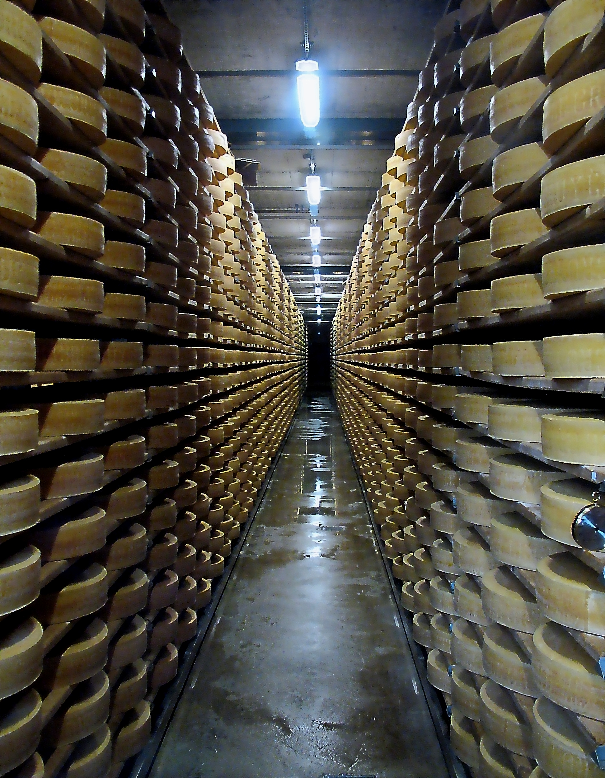 Production of Gruyère cheese at the cheesemaking factorie of Gruyères , Switzerland, Canton of Fribourg. This image was improved or created by the Wikigraphists of the Graphic Lab (fr). You can propose images to clean up, improve, create or translate as well.